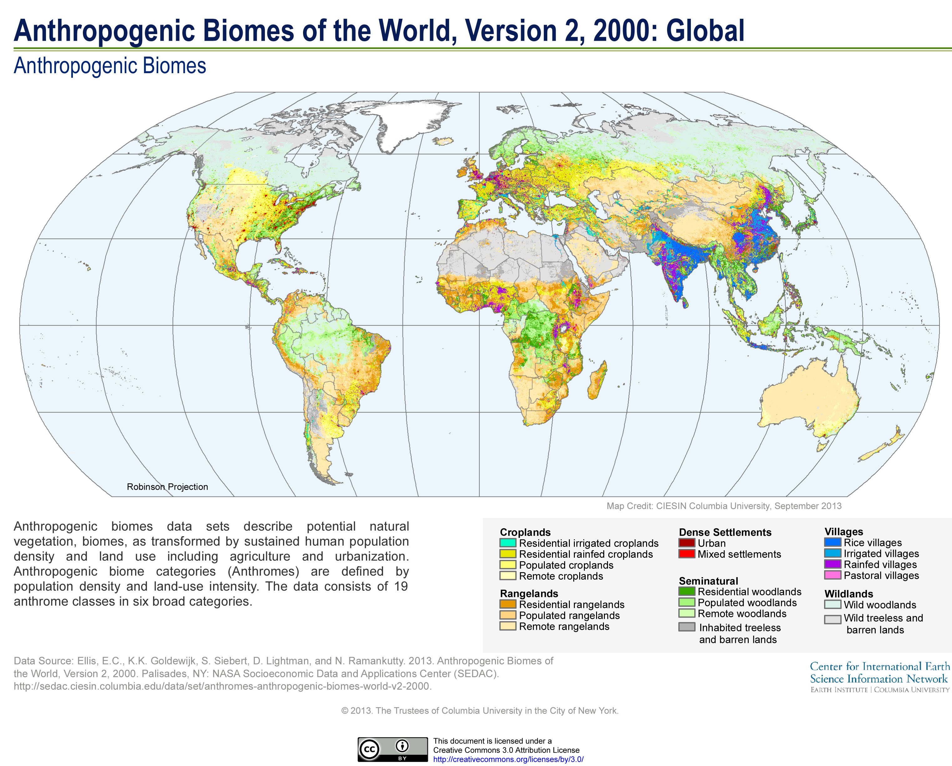 Anthropogenic biomes datasets describe potential natural vegetation, biomes, as transformed by sustained by human population density and land use including agriculture and urbanization. Anthropogenic biome categories (Anthromes) are defined by population density and land-use intensity. The data consists of 19 anthrome classes in six broad categories.